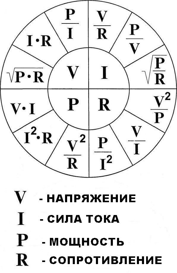 Ohm's law